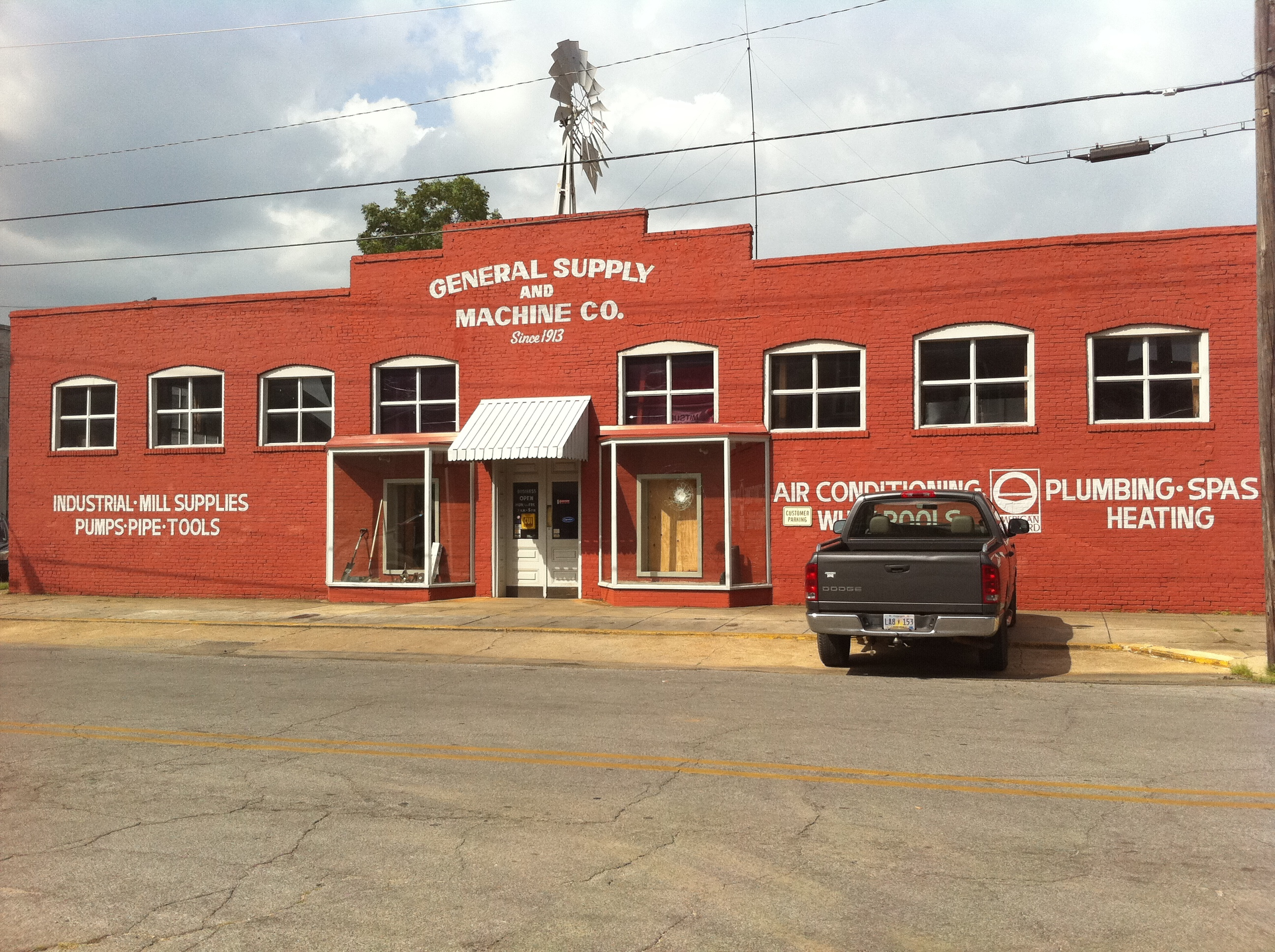 Cliff Williams Machine Shop (now General Supply Store) in downtown Meridian, Mississippi